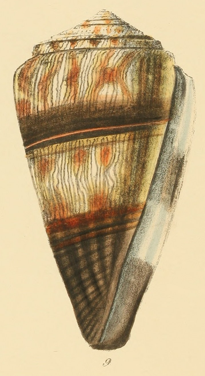 Conus zonatus